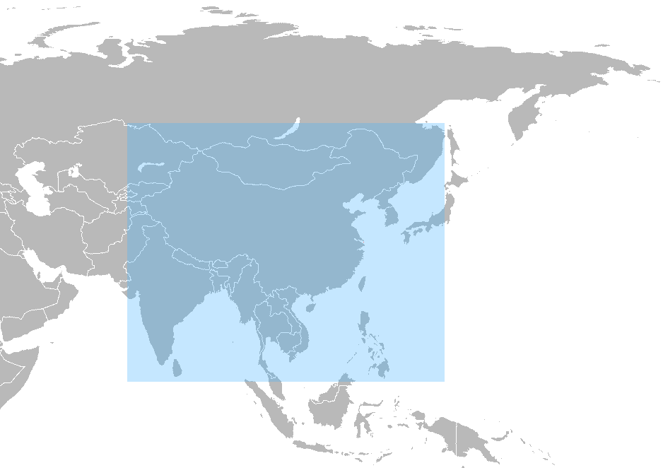 Coverage of Chinese local positioning system Beidou navigation system.